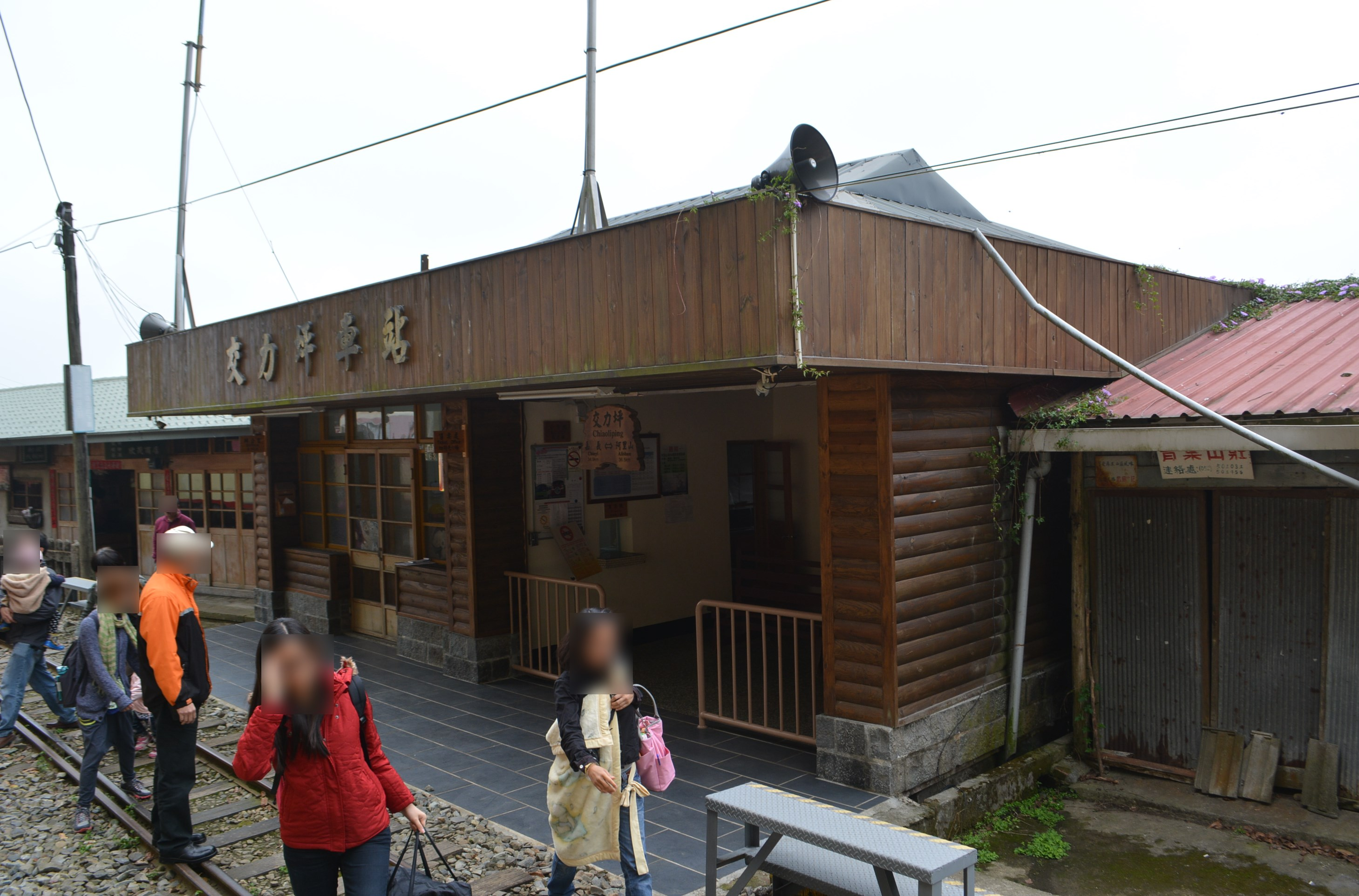 Jiaoliping Station,Chiayi district,Taiwan